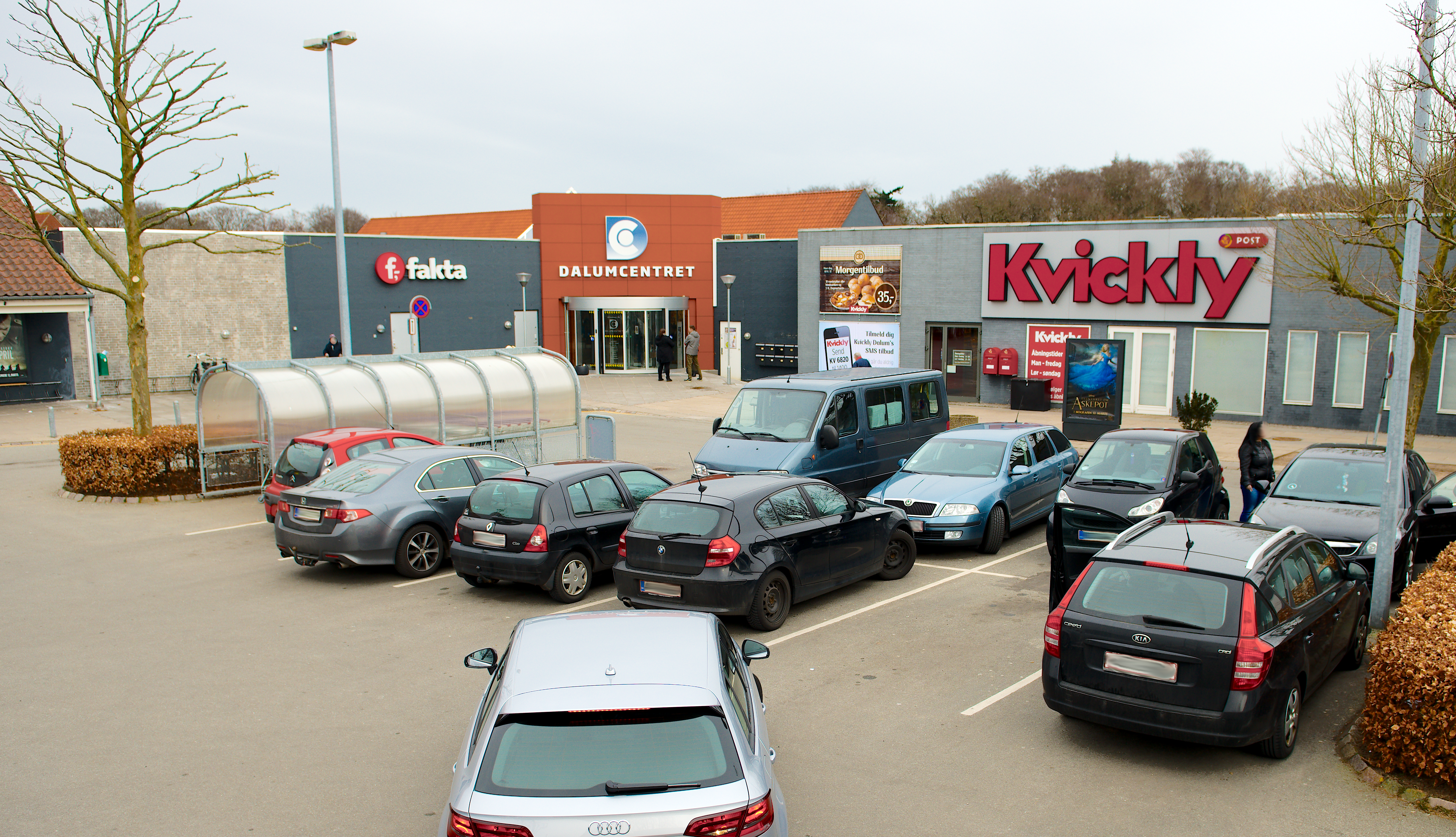 Entrance to the Dalum Center (Mall) in Odense